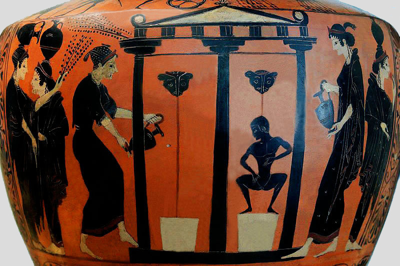 Enneakrounos fountain in Athens.